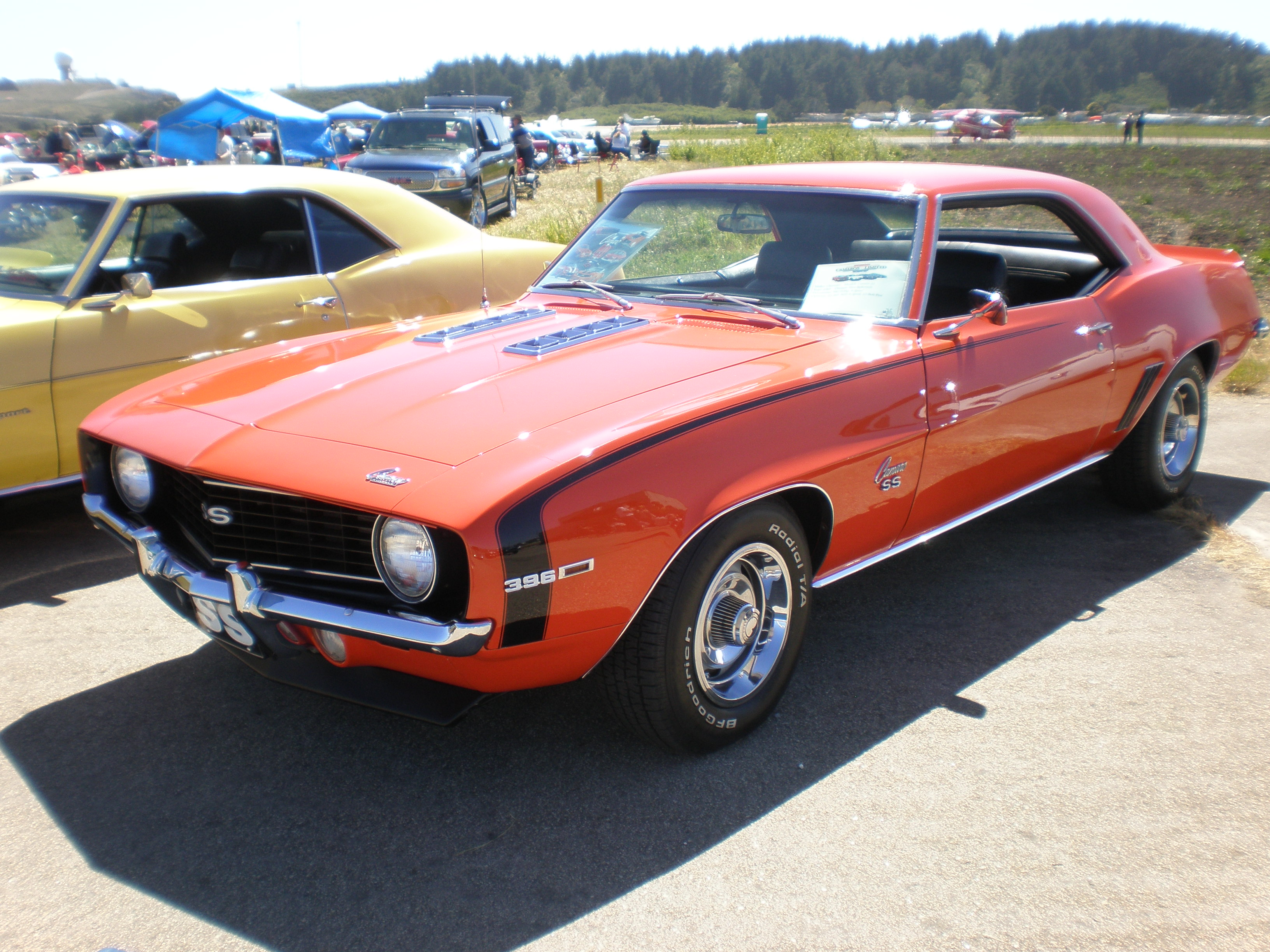 A 1969 Chevrolet Camaro SS at the Pacific Coast Dream Machines vehicle show at the Half Moon Bay Airport in Half Moon Bay, California.